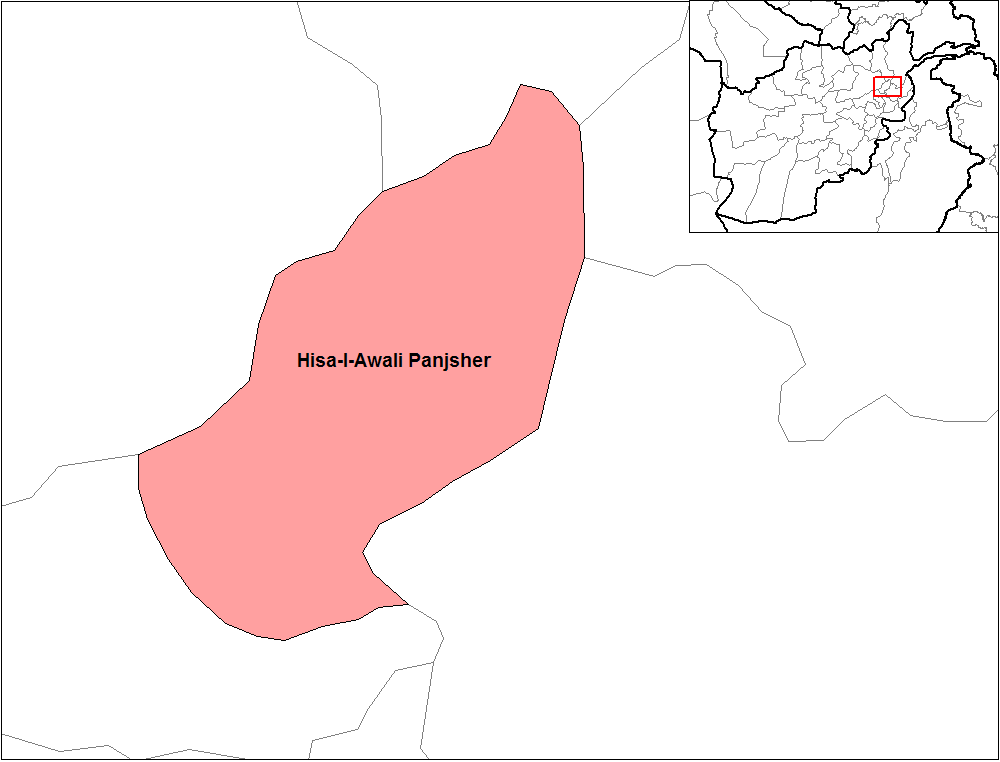 Map of the districts of Panjshir province of Afghanistan. Created by Rarelibra 19:31, 29 March 2007 (UTC) for public domain use, using MapInfo Professional v8.5 and various mapping resources.